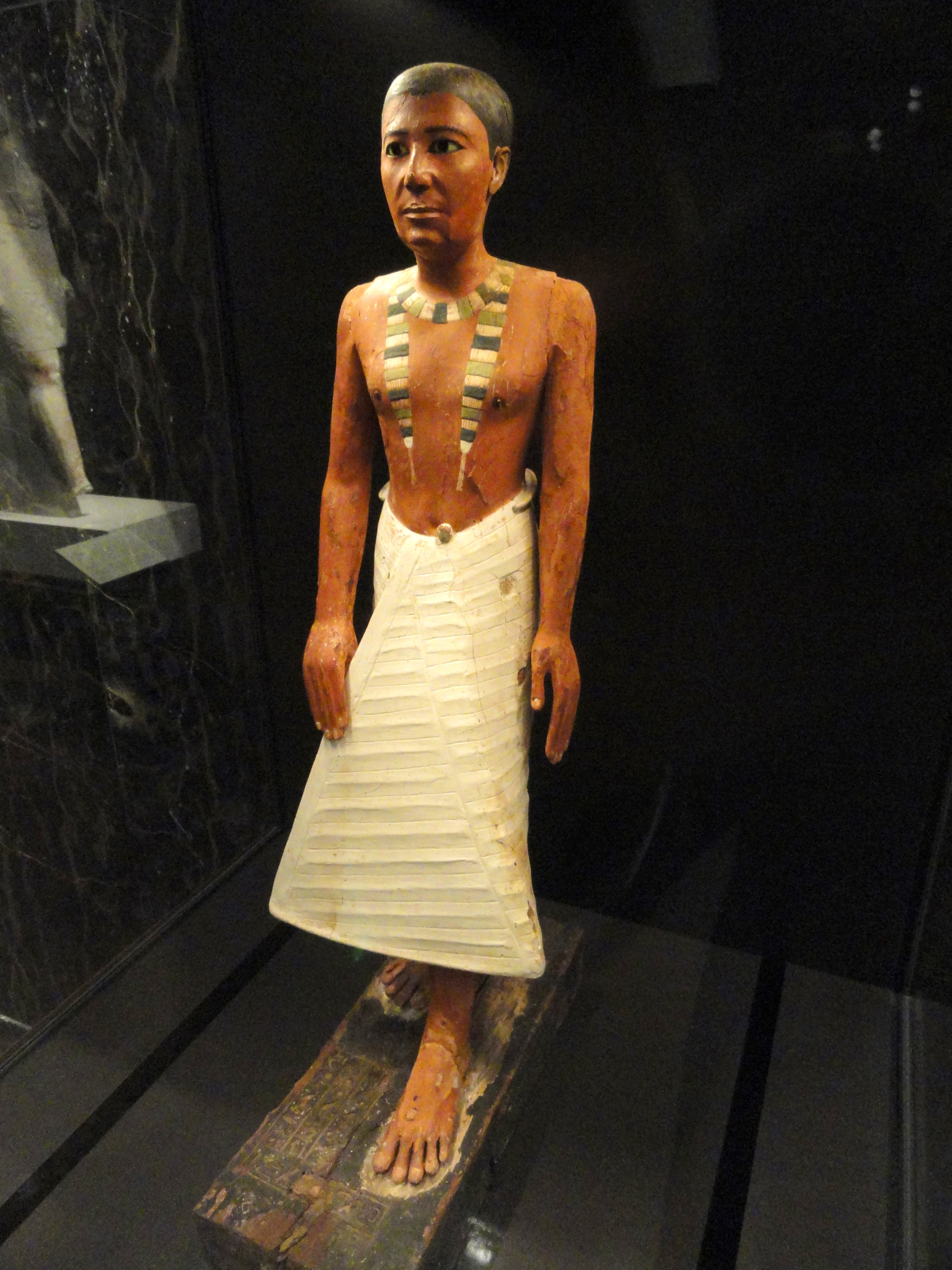 Exhibit in the Nelson-Atkins Museum of Art, Kansas City, Missouri, USA. ; I took this photograph and release it into the public domain.